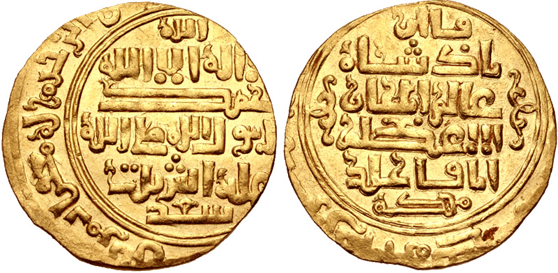 ISLAMIC, Persia (Post-Seljuk). Salghurids. Abish Khatun. AH 662-681 / AD 1263-1282. AV Dinar (25mm, 5.79 g, 10h). Citing the Ilkhan ruler Abaqa as overlord. Mint and AH date off flan. Diler – ; Album 1928; ICV 1891. EF, off center, slightly wavy flan, lustrous.